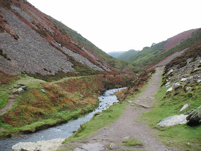 Heddon's Mouth, Exmoor Looking up the River Heddon valley showing the loose rocks on the valley side.